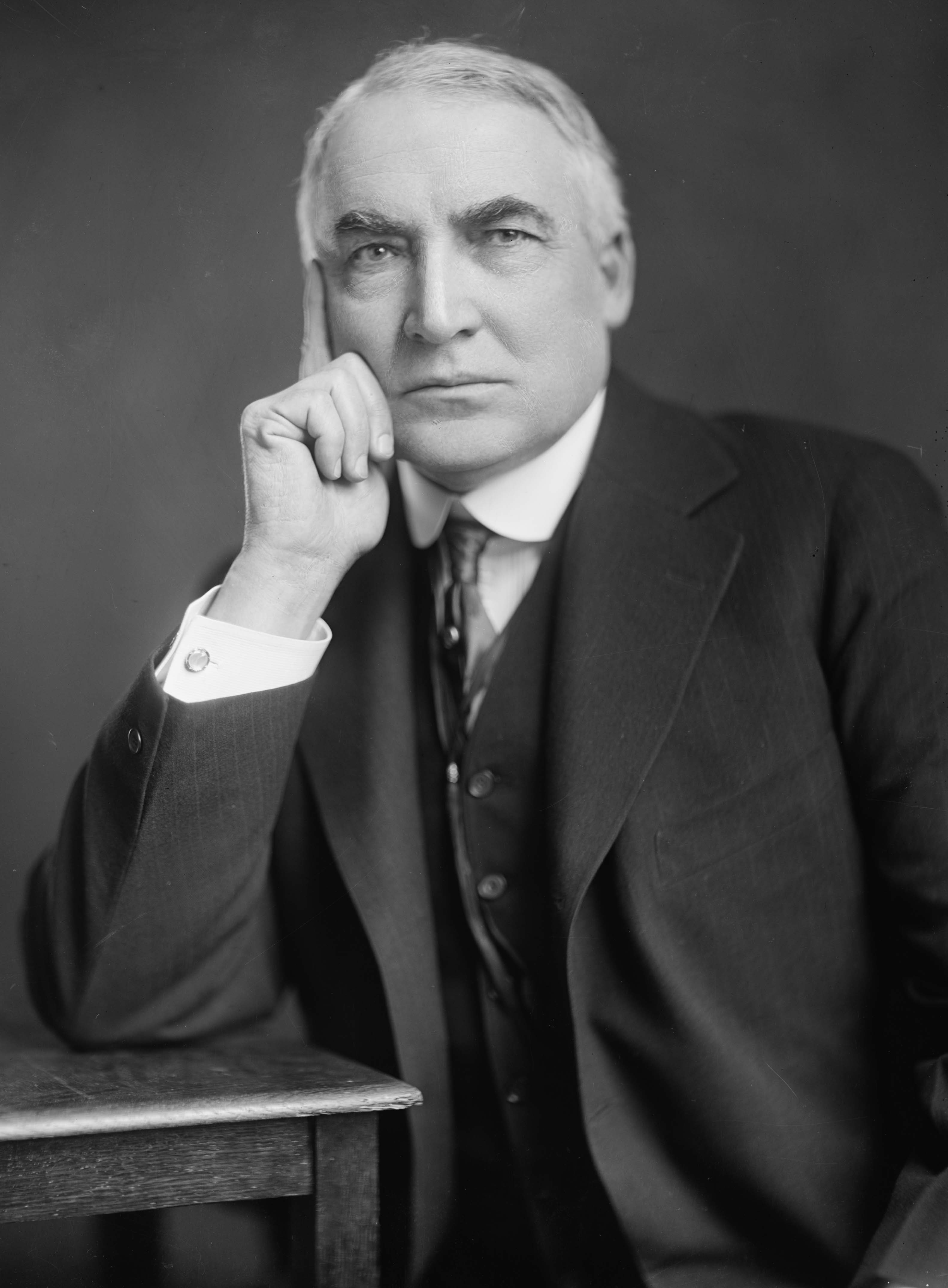 Warren G. Harding, by Harris & Ewing.